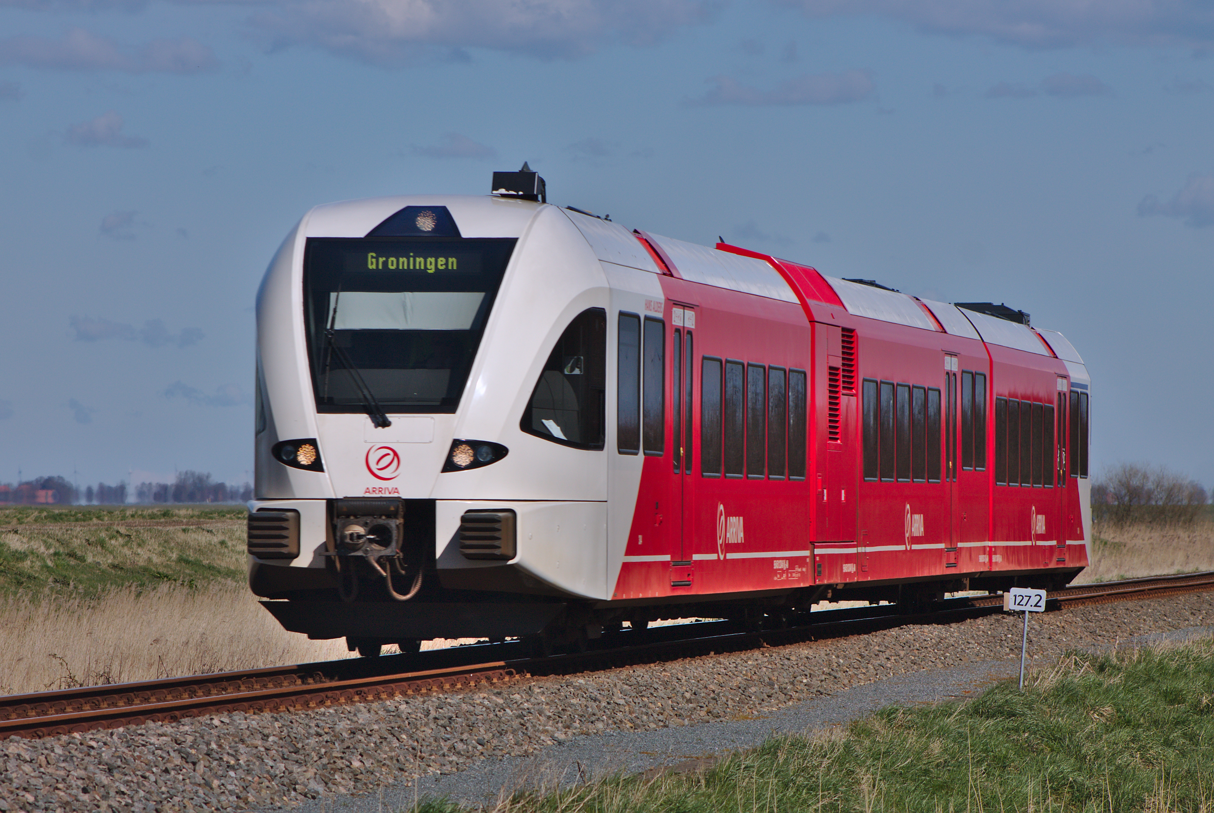 A three-segment Stadler GTW DMU operated by Arriva ("Spurt") on a local service from Leer to Groningen, right after having crossed the German-Dutch border near Bad Nieuweschans.